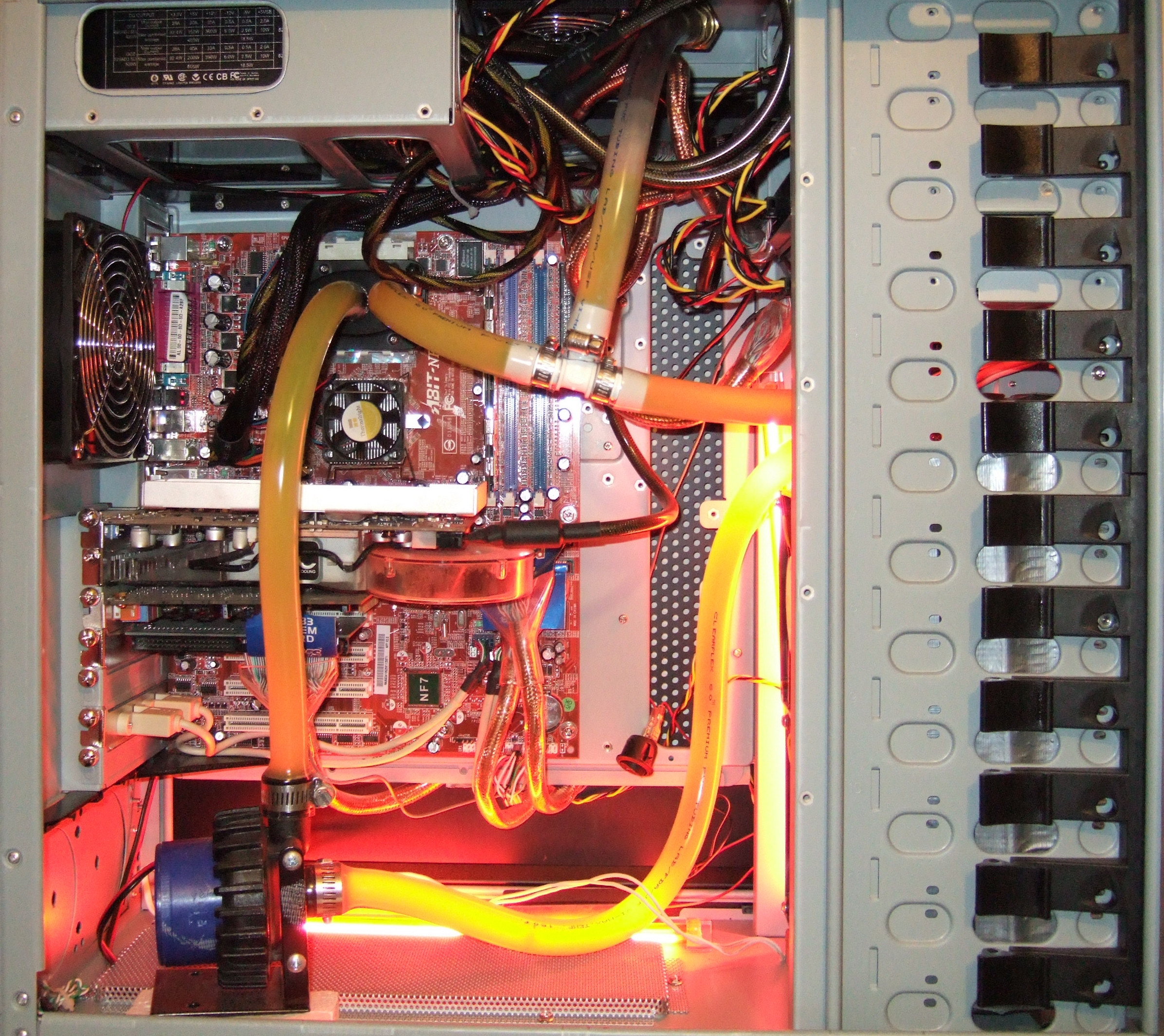 A watercooled PC. The hose is secured to hose barb fittings with screw/band hose clamps. In the lower left is a D5 pump made by Laing GmbH, part of ITT Corporation. From there, coolant flows vertically to the water block on the CPU, then right to the radiator (not visible), then back to the pump. The hose rising vertically to the top of the picture is a T Line used to fill and empty the coolant loop.